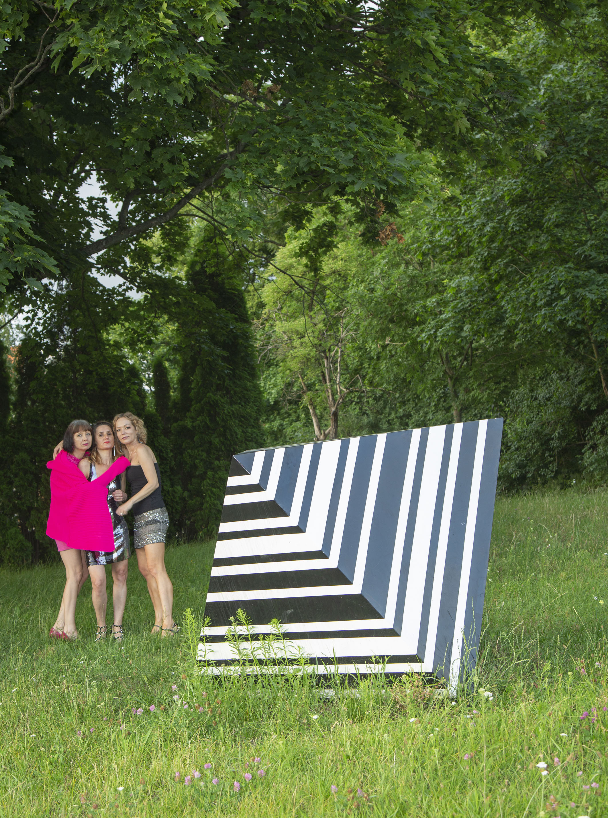 The sculpture (140 x 140 cm) created by Maurycy Gomulicki (cooperation: G. Olech and R. Śmigiel) as a part of the "Moving Forms" project in 2014. Located at the intersection of Traugutta and Grobli św Grzegorza streets in Elbląg. In the background, visual artists: Iwona Demko and Agata Zbylut, with curator Karina Dzieweczyńska, while working on the project entitled "Congress of dreamers / Kongres Marzycielek” carried out at the Art Center Gallery EL.